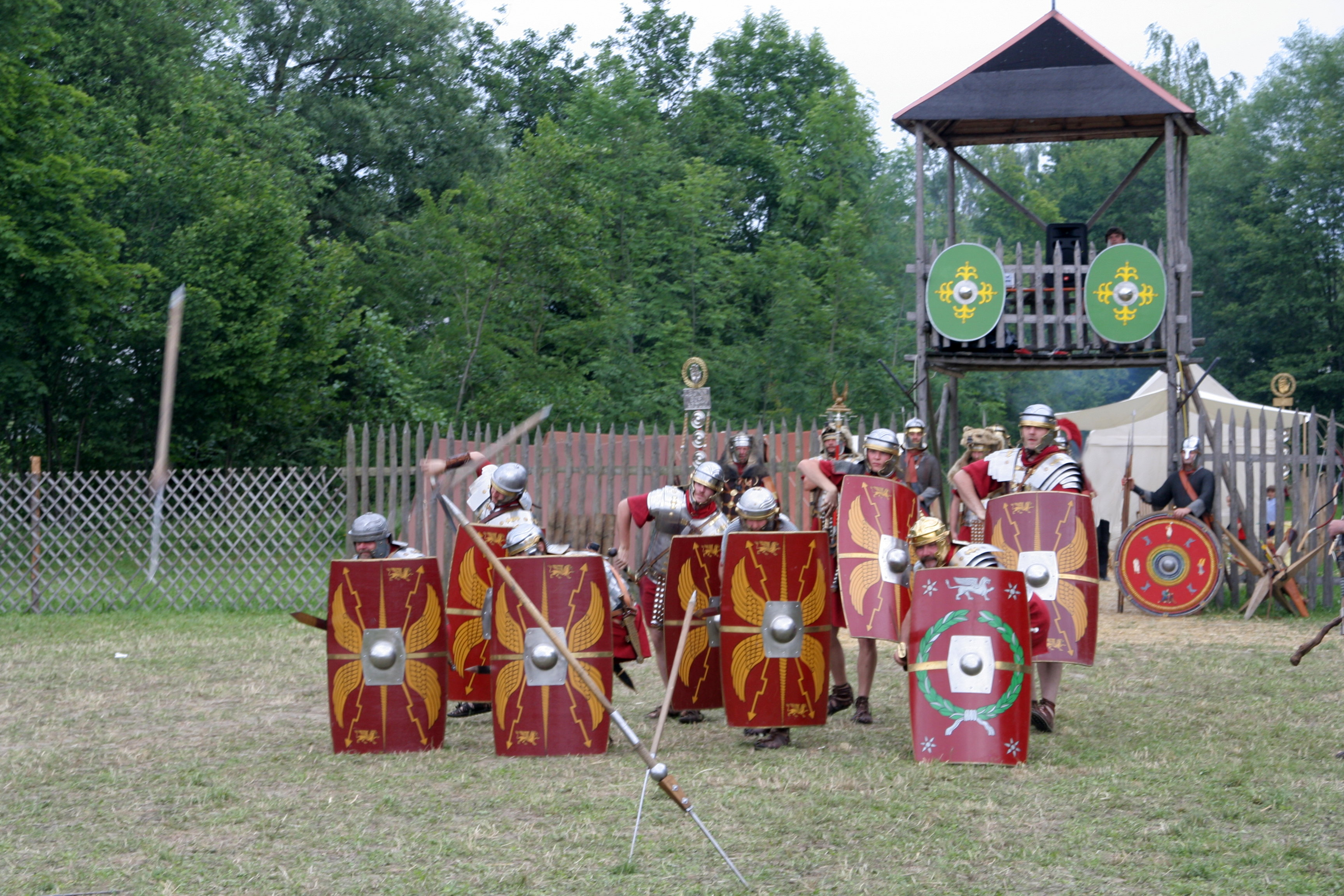 Throwing pila